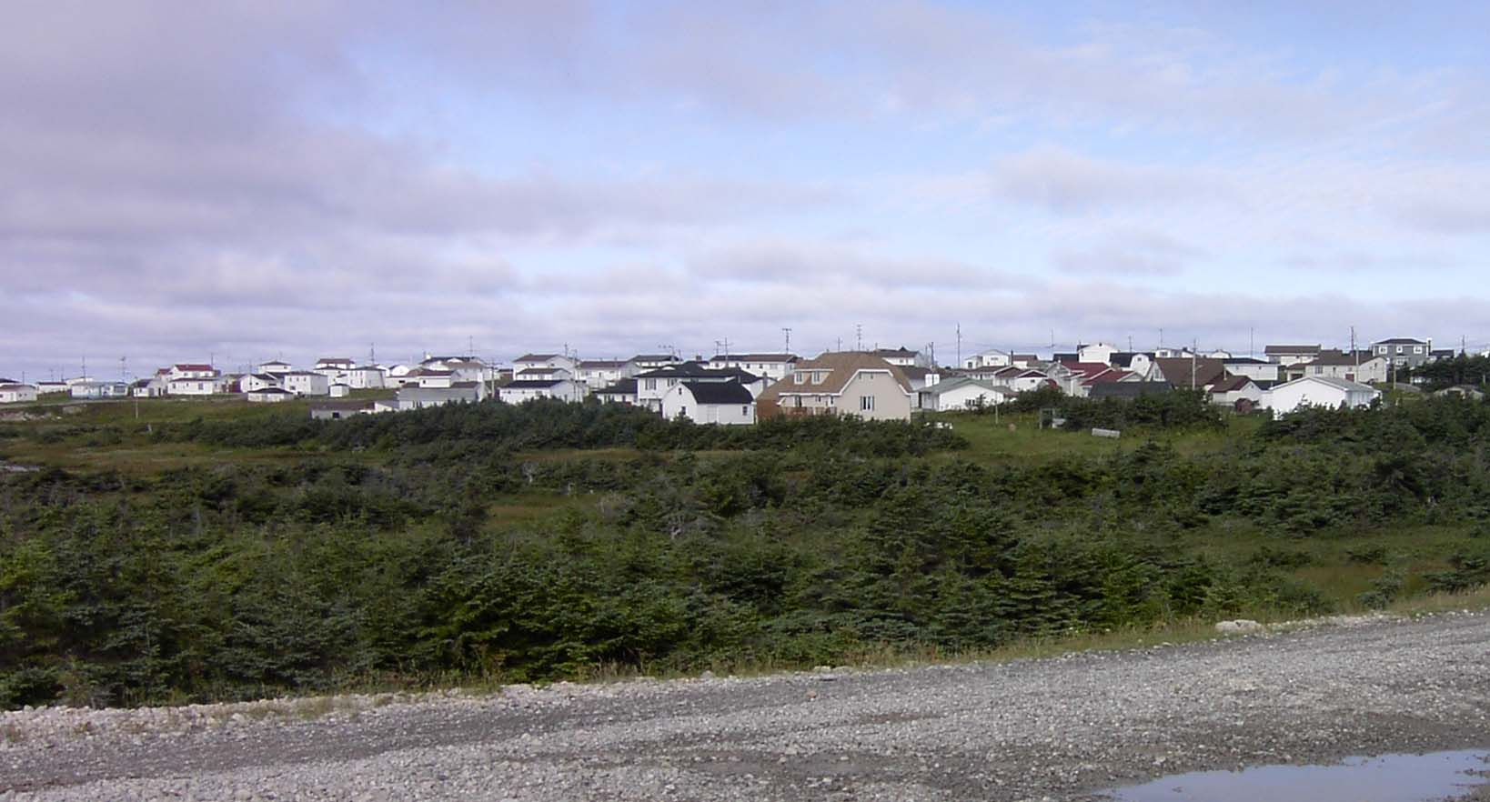 Author: Saad Eldeen Bahloul List of communities in Newfoundland and Labrador